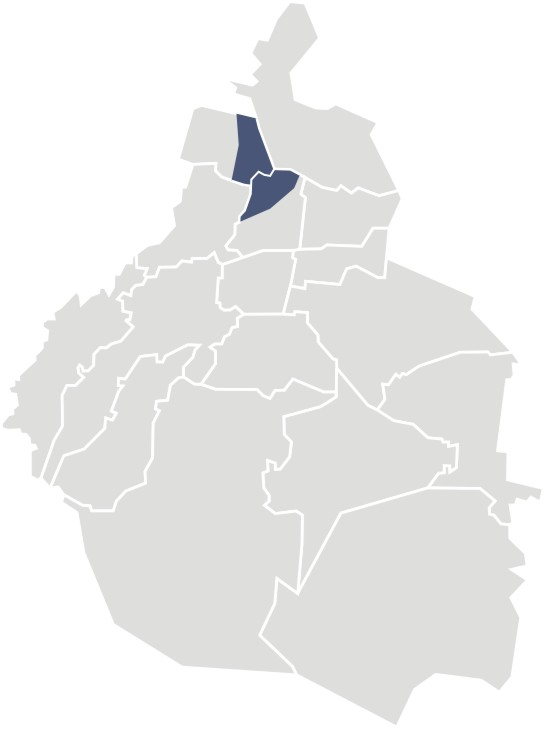 Map of the Eight Federal Electoral District of the Federal District, México.